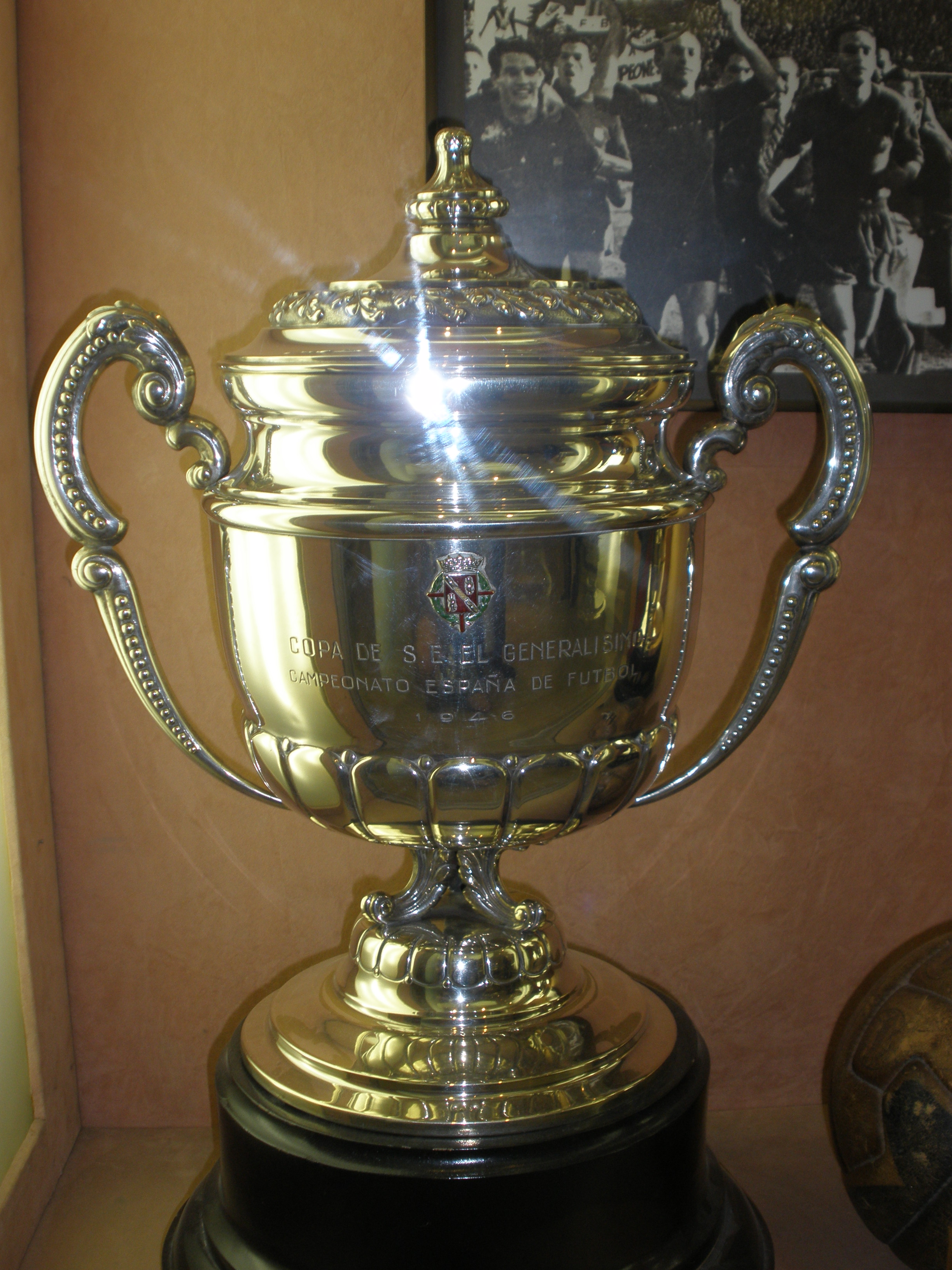 Trophy of the Generalissimo's Cup, showed in FC Barcelona's museum